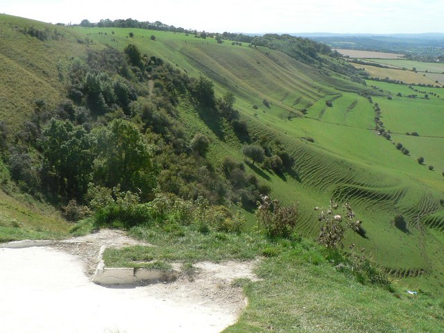 From the horse’s mouth The view along the slopes of Westbury Hill from the White Horse, whose mouth can be seen bottom-left of picture.